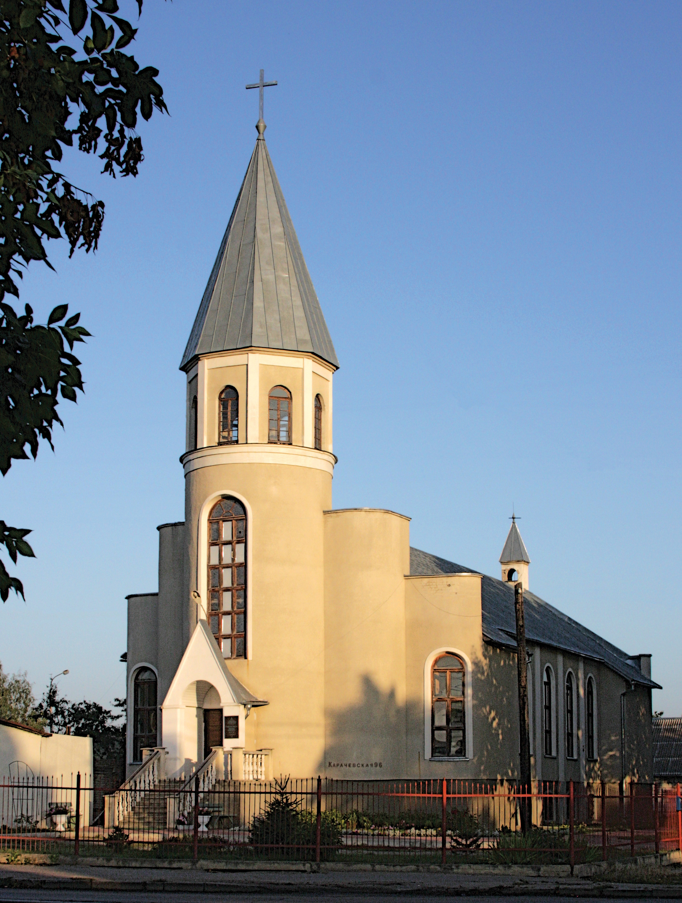 Adventist Church in Oryol, Russia